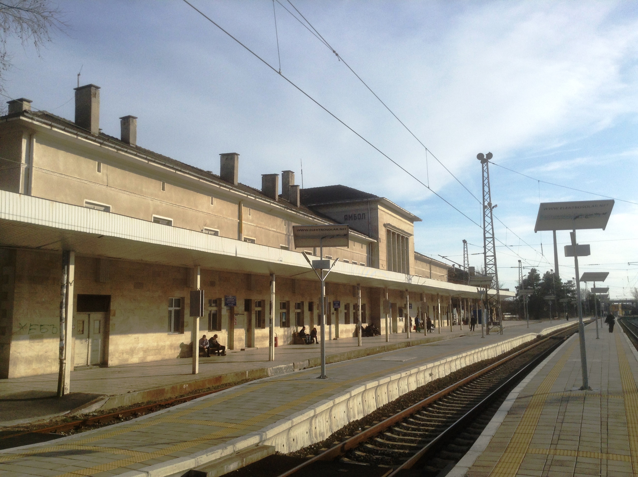 Yambol railway station